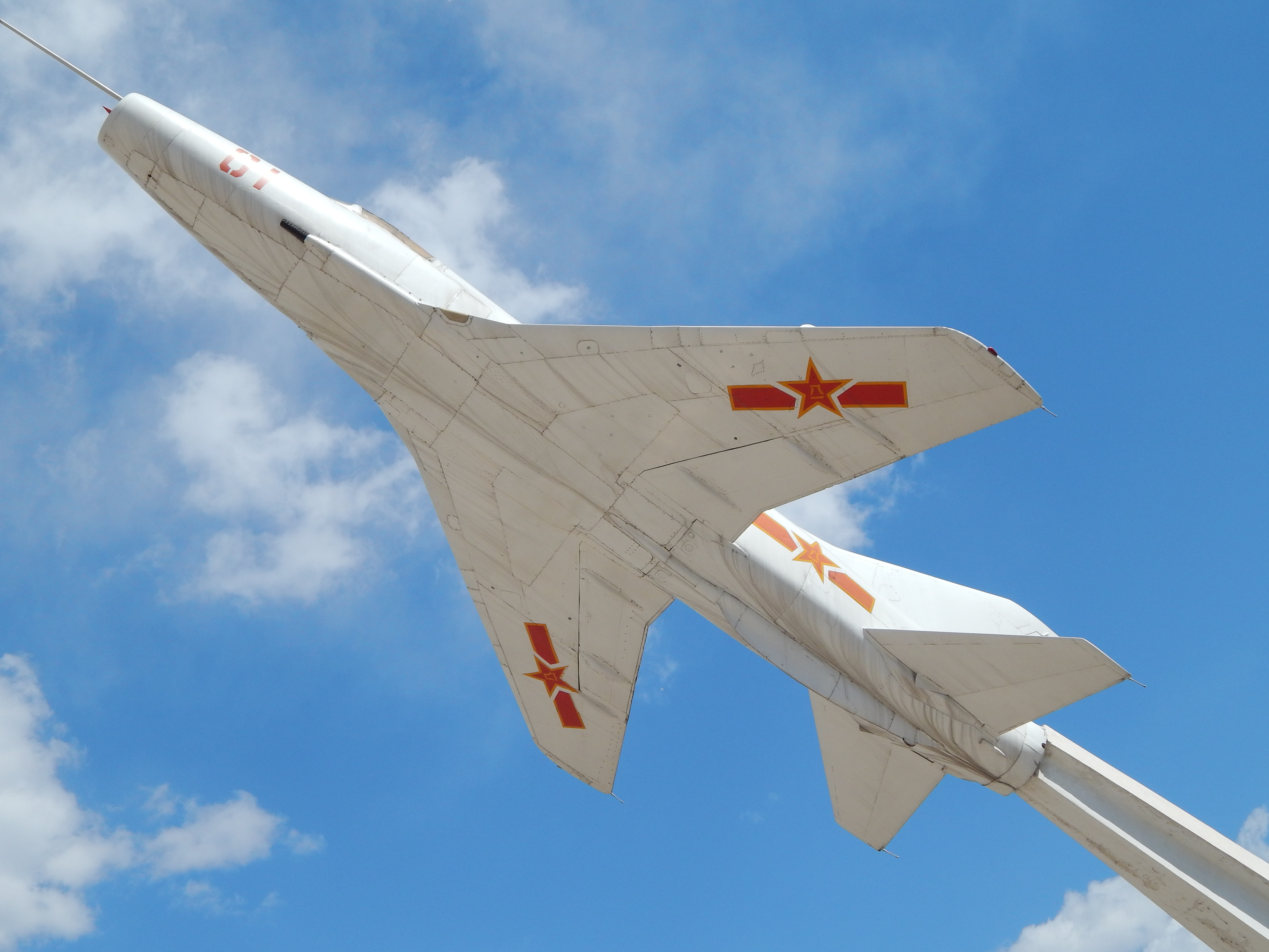 Superb example attached to a concrete prong.